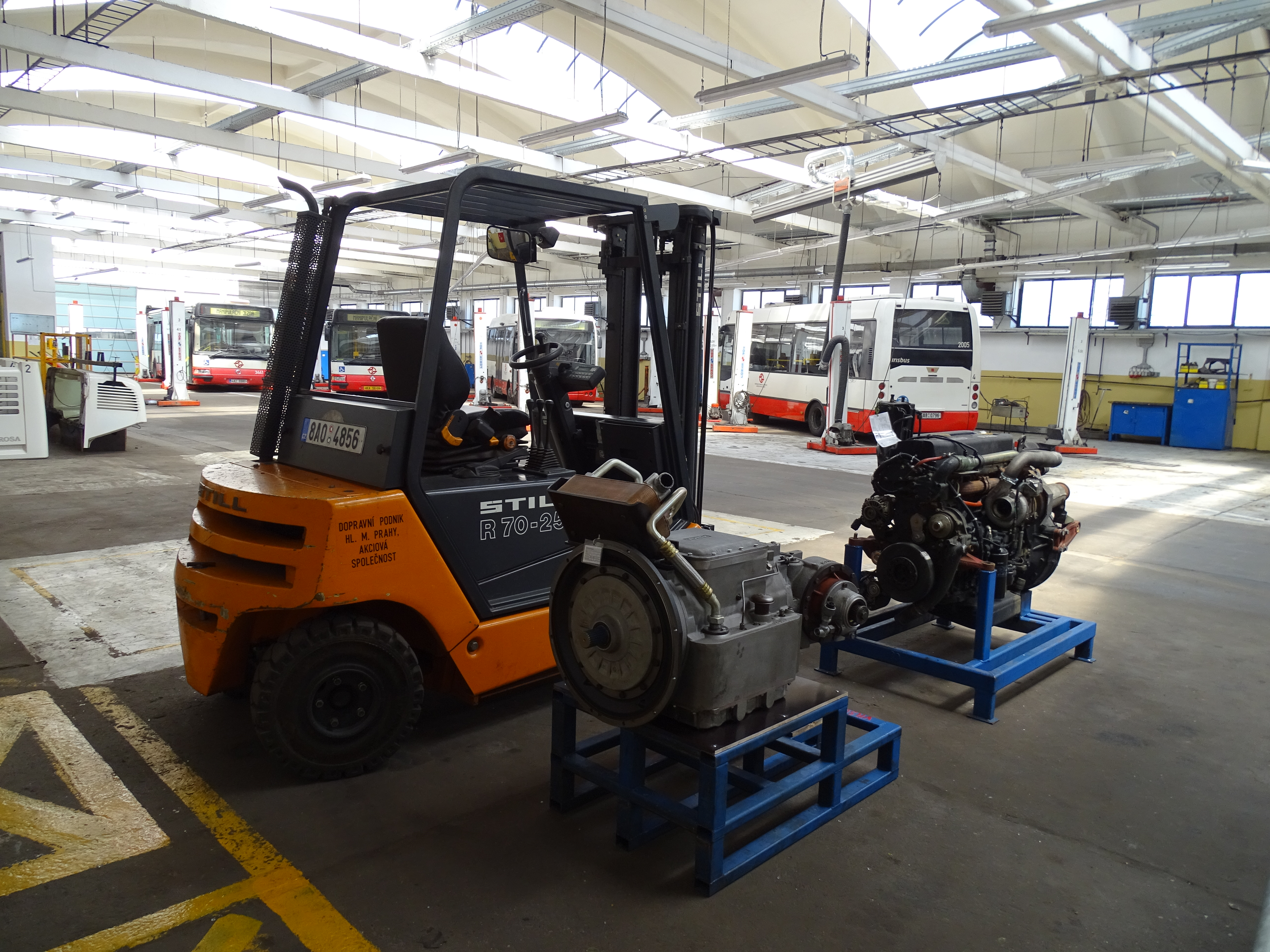 Prague-Michle, Czech Republic. Nad Vršovskou horou 80/1a, open doors day of the bus garage.